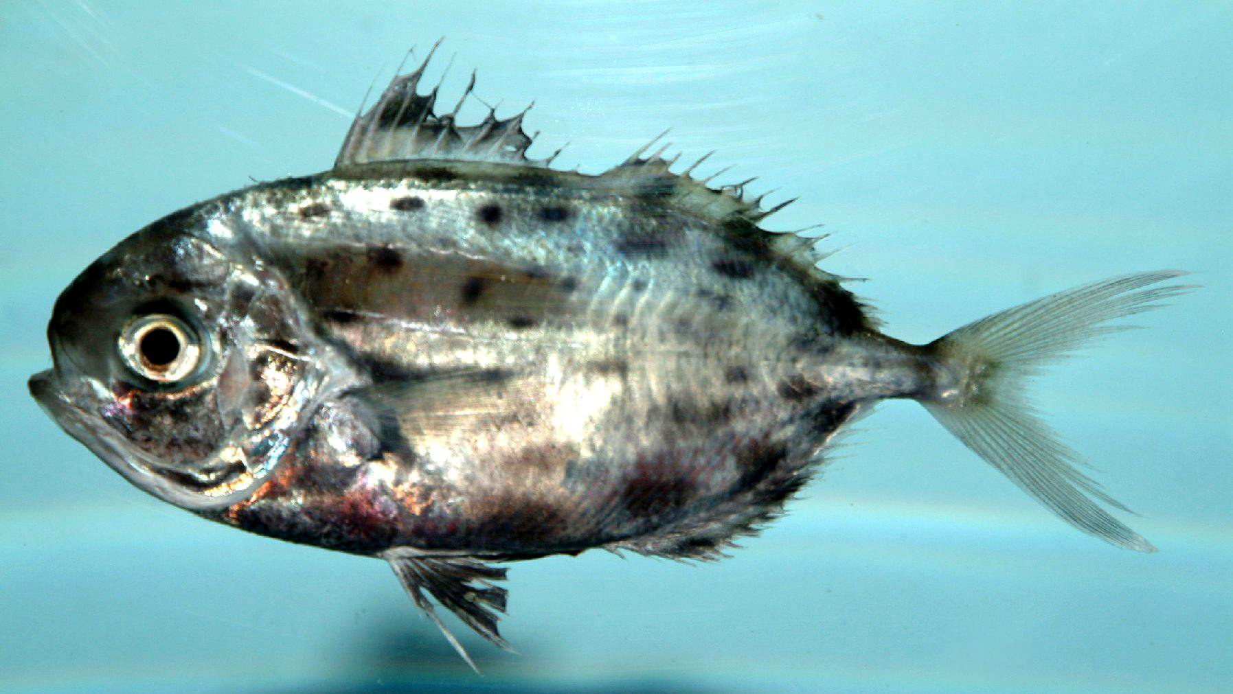 Spotted driftfish ( Ariomma regulus ). Gulf of Mexico.